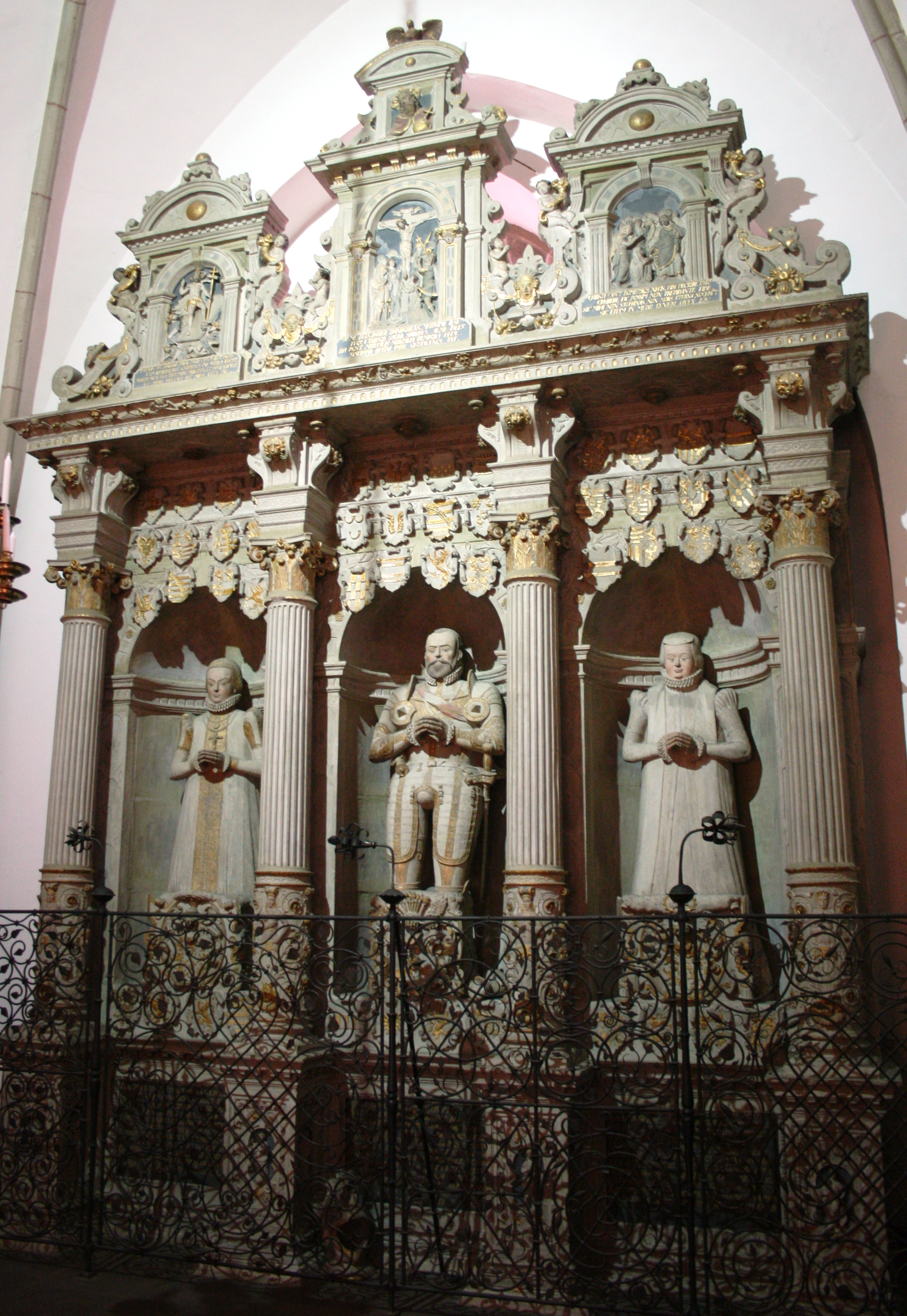 Saint Martin in Stadthagen, Germany. Tomb of count Otto IV. (+1576) of Holstein-Schaumburg.